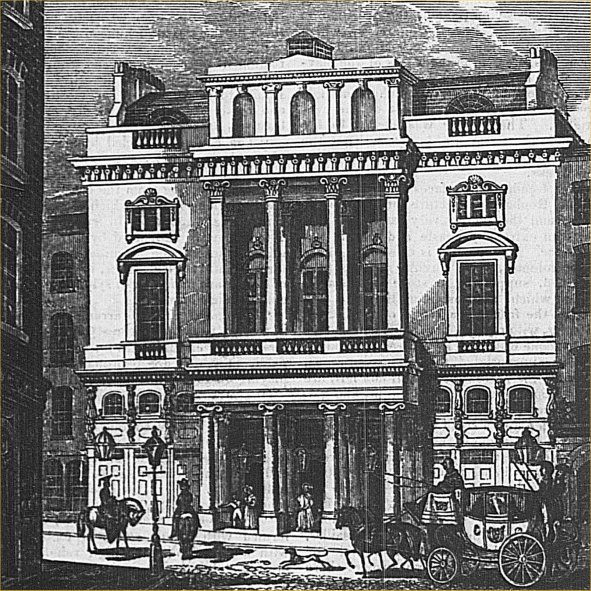 Exterior of St James's Theatre, London